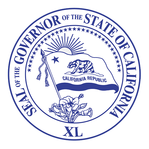 Official seal of the 40th Governor of California, Gavin Newsom.